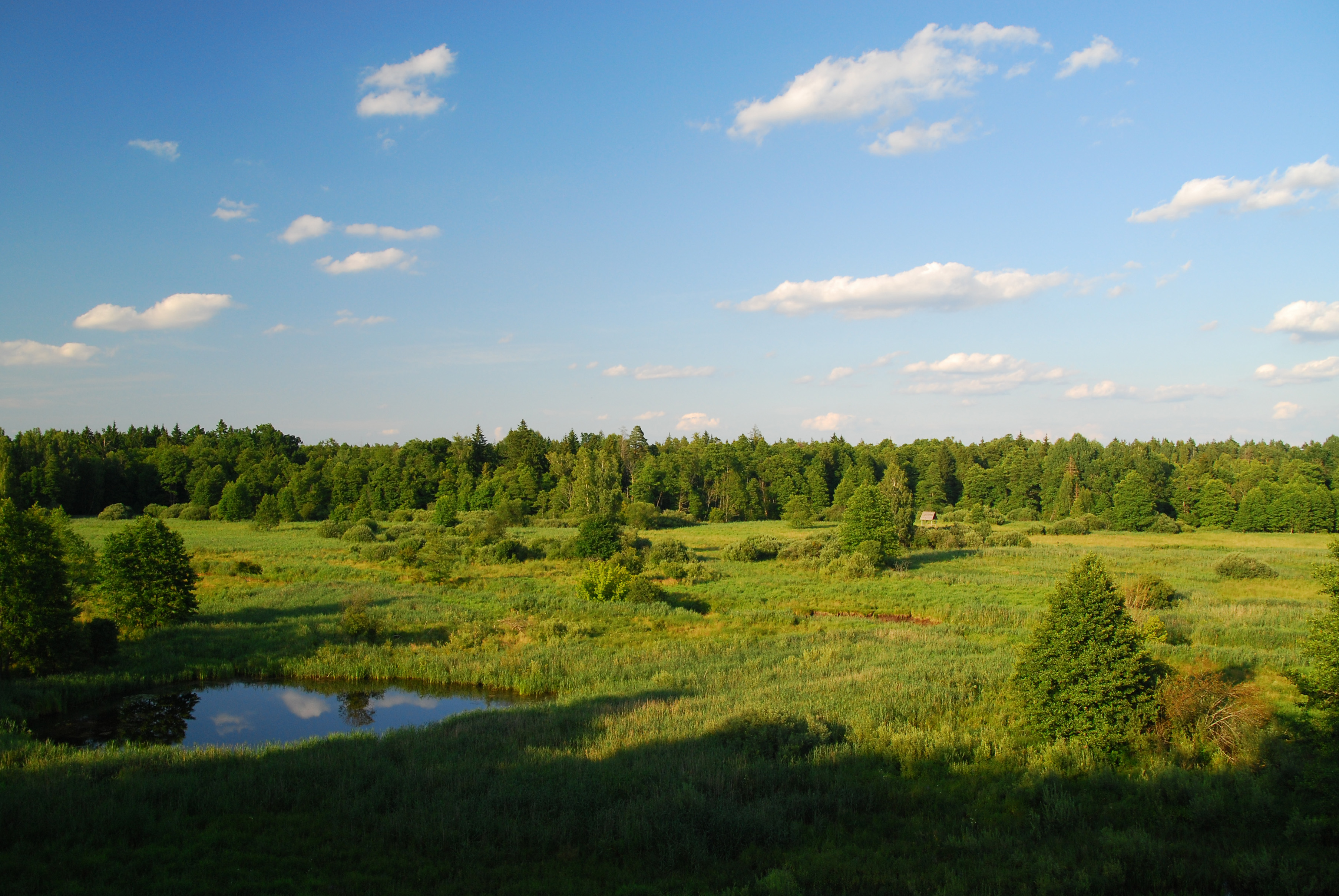 This photo from Podlaskie Voievodeship was taken during Polish Wikiexpedition 2009 set up by Wikimedia Polska Association. The making of this document was supported by Wikimedia Polska. Białowieski National Park Landscape